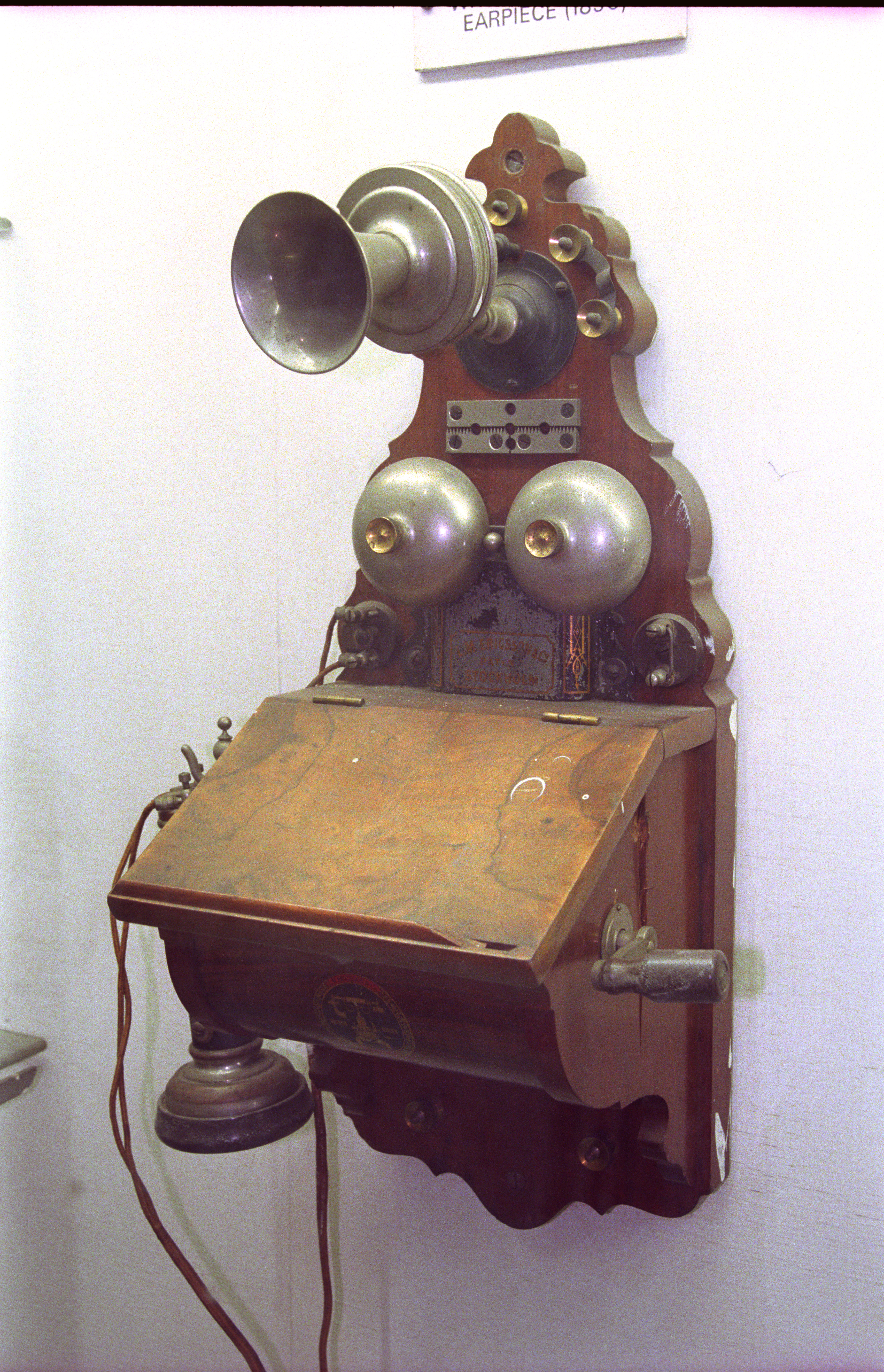 This photograph was taken at the Communication gallery, Birla Industrial & Technological Museum (BITM), Calcutta, in the year 2000.